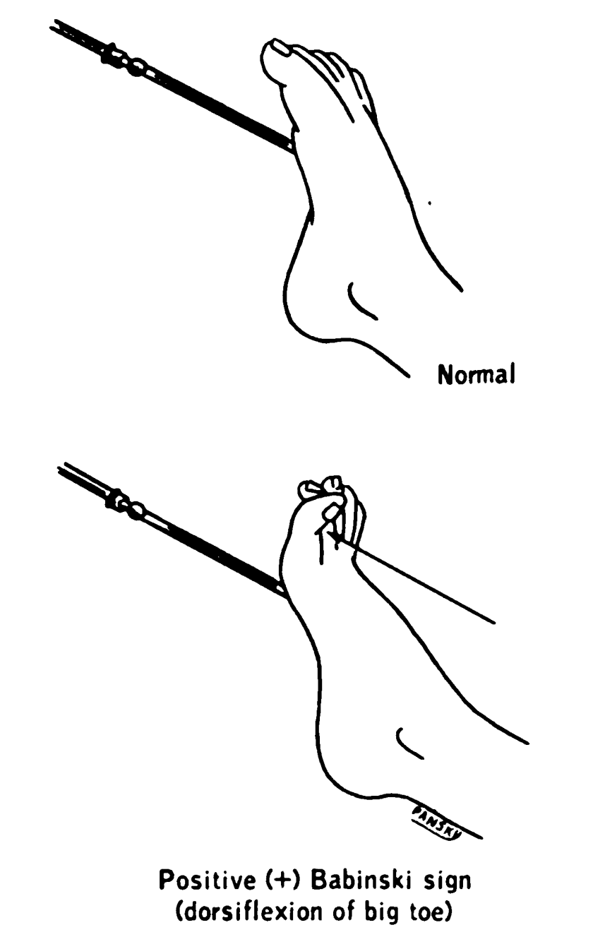 Anatomical illustration of the human nervous system from the 1960 book A functional approach to neuroanatomy